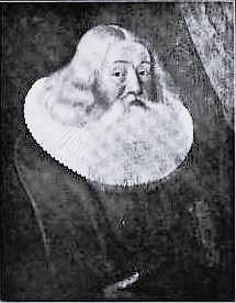 Detail of a full-length portrait and epitaph (1646) in the Marienkirche